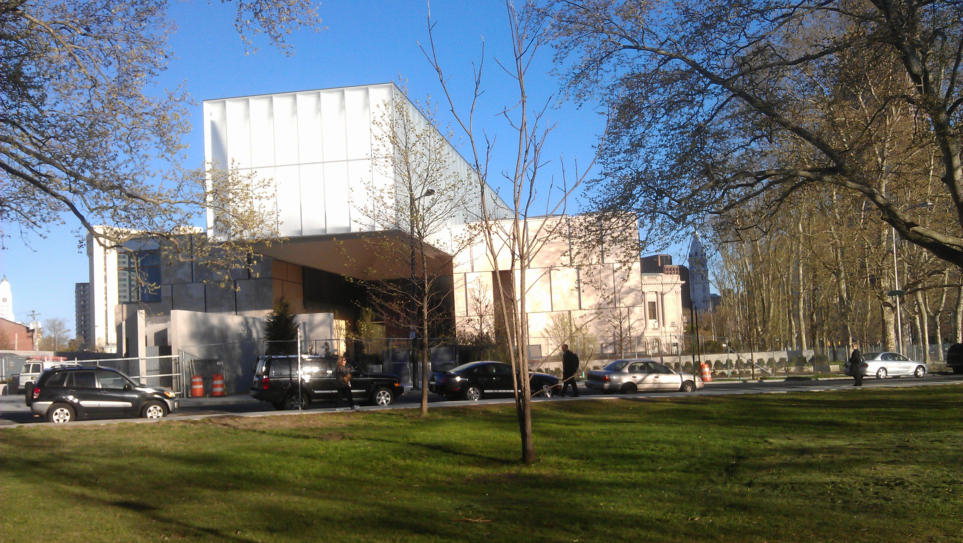 The Barnes Foundation, Logan Square, Philadelphia. Looking east from the grounds of the neighboring Rodin Museum. Picture taken April 2, 2012, as its opening, scheduled for May, nears. The Free Library of Philadelphia and City Hall are visible in the background, on the right.